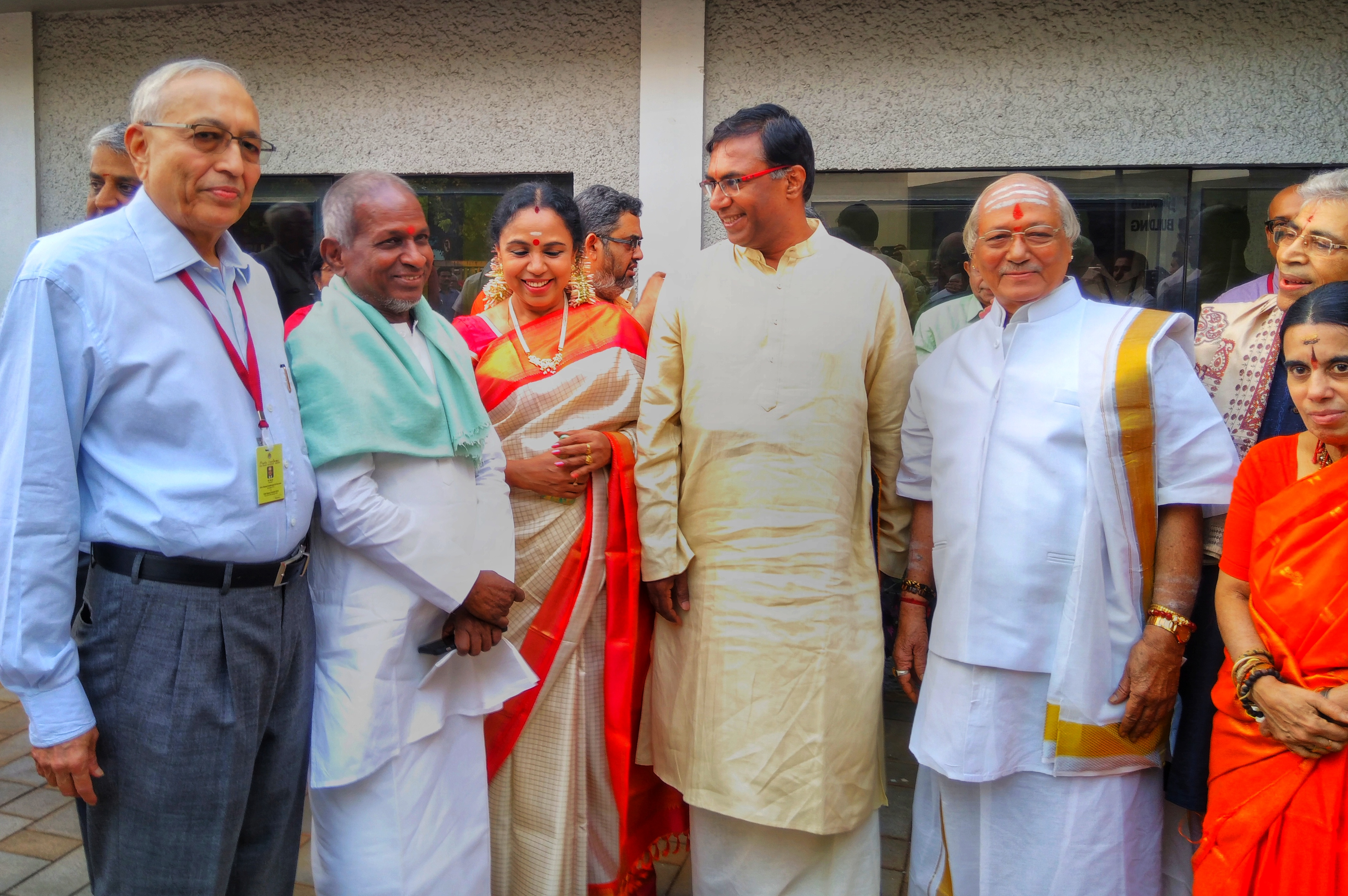 Maestro Ilayaraaja attending the inauguration of 91st Music Academy Concerts & Conferences, 2017 on December 15th. Here he's seen with Sudha Ragunadhan, Chitraveena N Ravikiran, T V Gopalakrishnan, N. Murali etc.